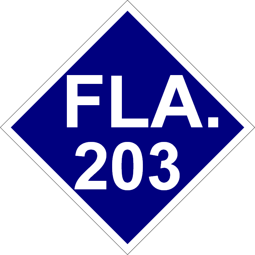 Pre-1945 Florida State Road 203 shield, made by User:SPUI to match a photo.